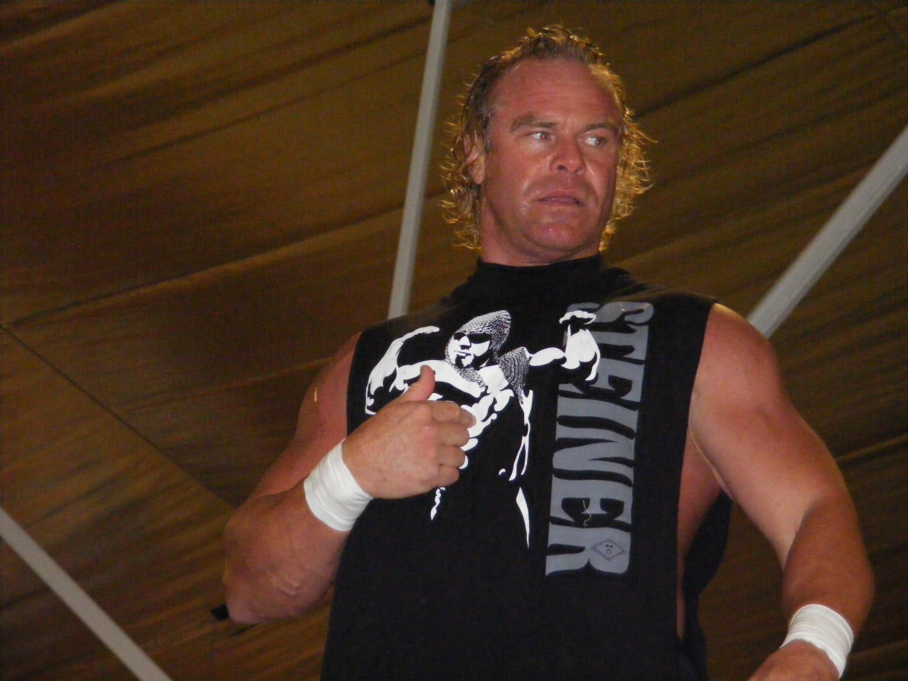 The Smoking Gun Monty Sopp (aka Kip James aka Billy Gunn) at a 2CW show in Rome, NY, in September 2011.